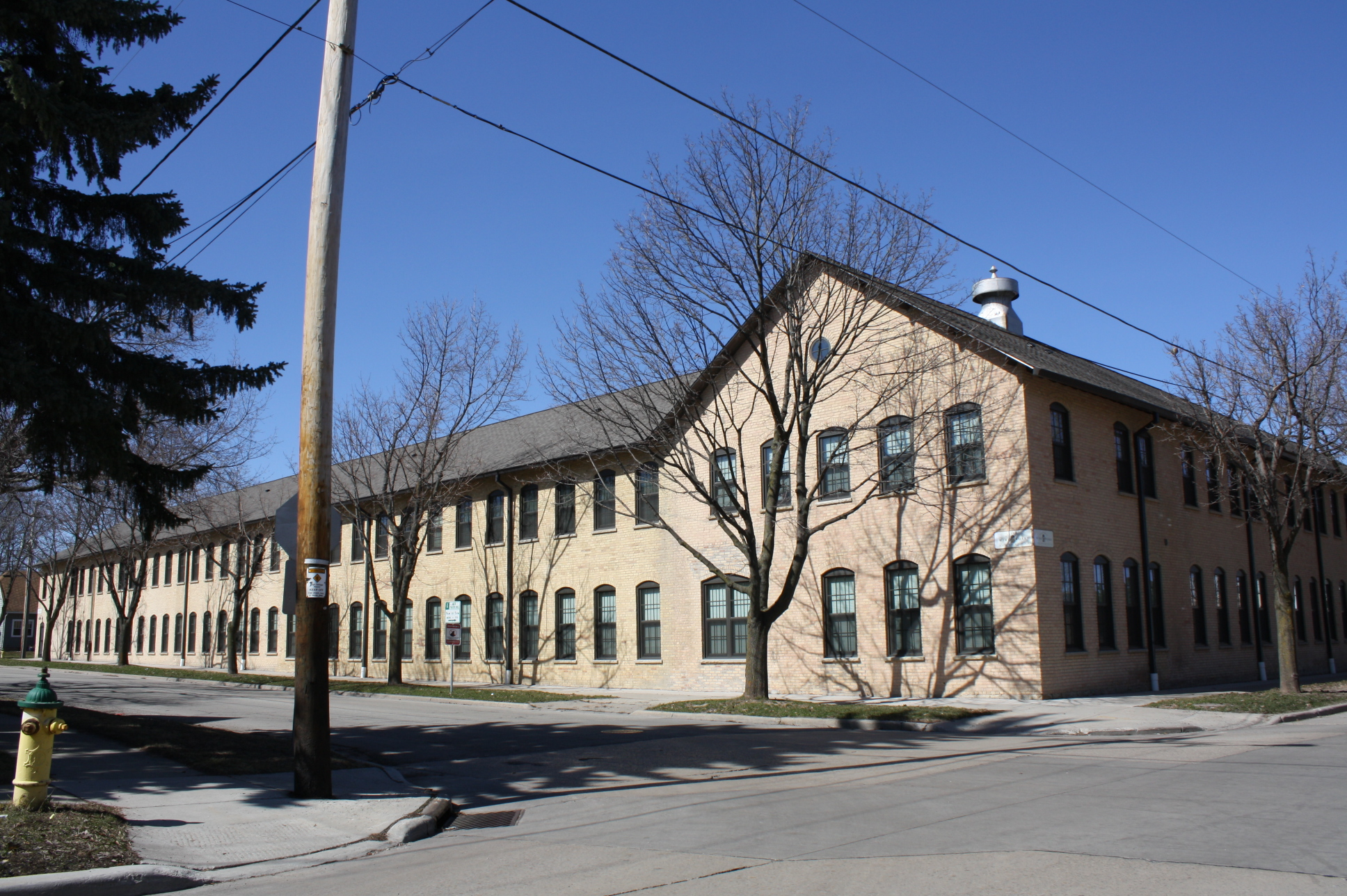 The Appleton Wire Works, listed on the National Register of Historic Places.